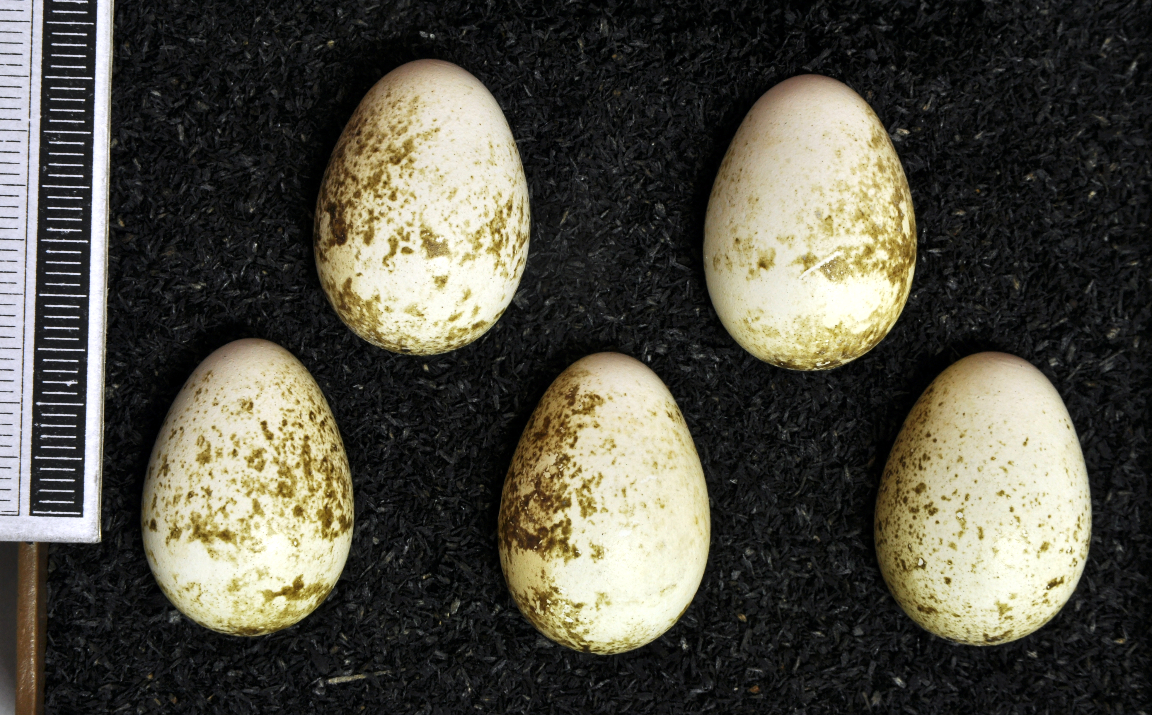 Stubble quail Coturnix pectoralis , egg, Coll. Museum Wiesbaden